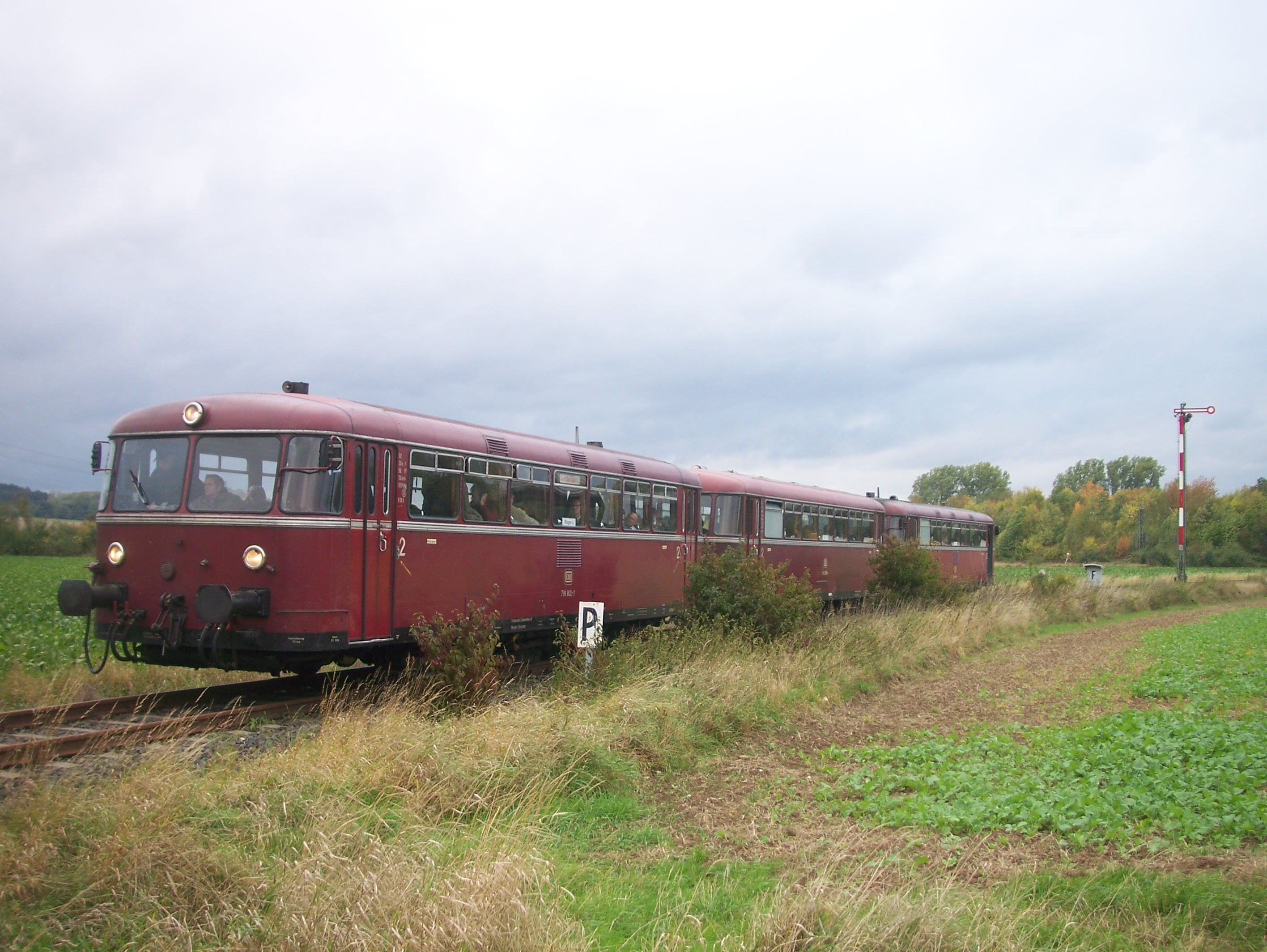 Schienbus einer DGEG-Sonderfahrt. Am Einfahrsignal von Emmerthal